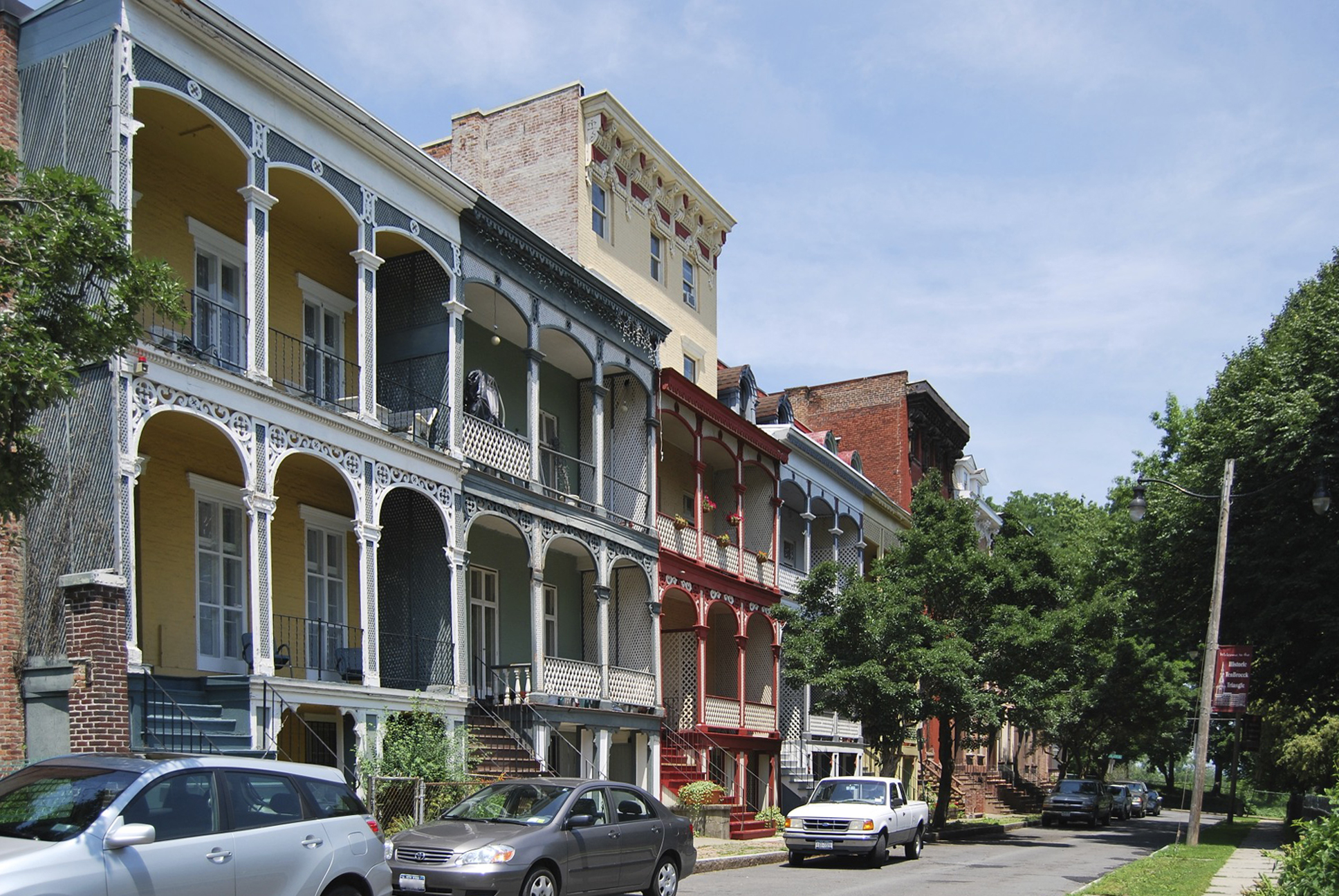 Housing in the Ten Broek Trangle, a subset of the Arbor Hill neighborhood in Albany, New York, United States